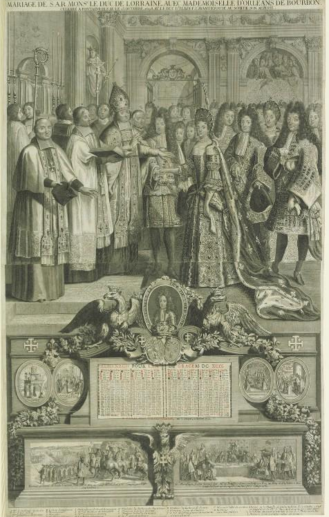 Marriage of HRH The Duke of Lorraine and Mademoiselle (Élisabeth Charlotte d'Orléans) celebrated at Fontainebleau 13 October 1698. Note the small Jerusalem Cross and Cross of Lorraine symbols in the lower part of the image, representing some of the groom's titles.